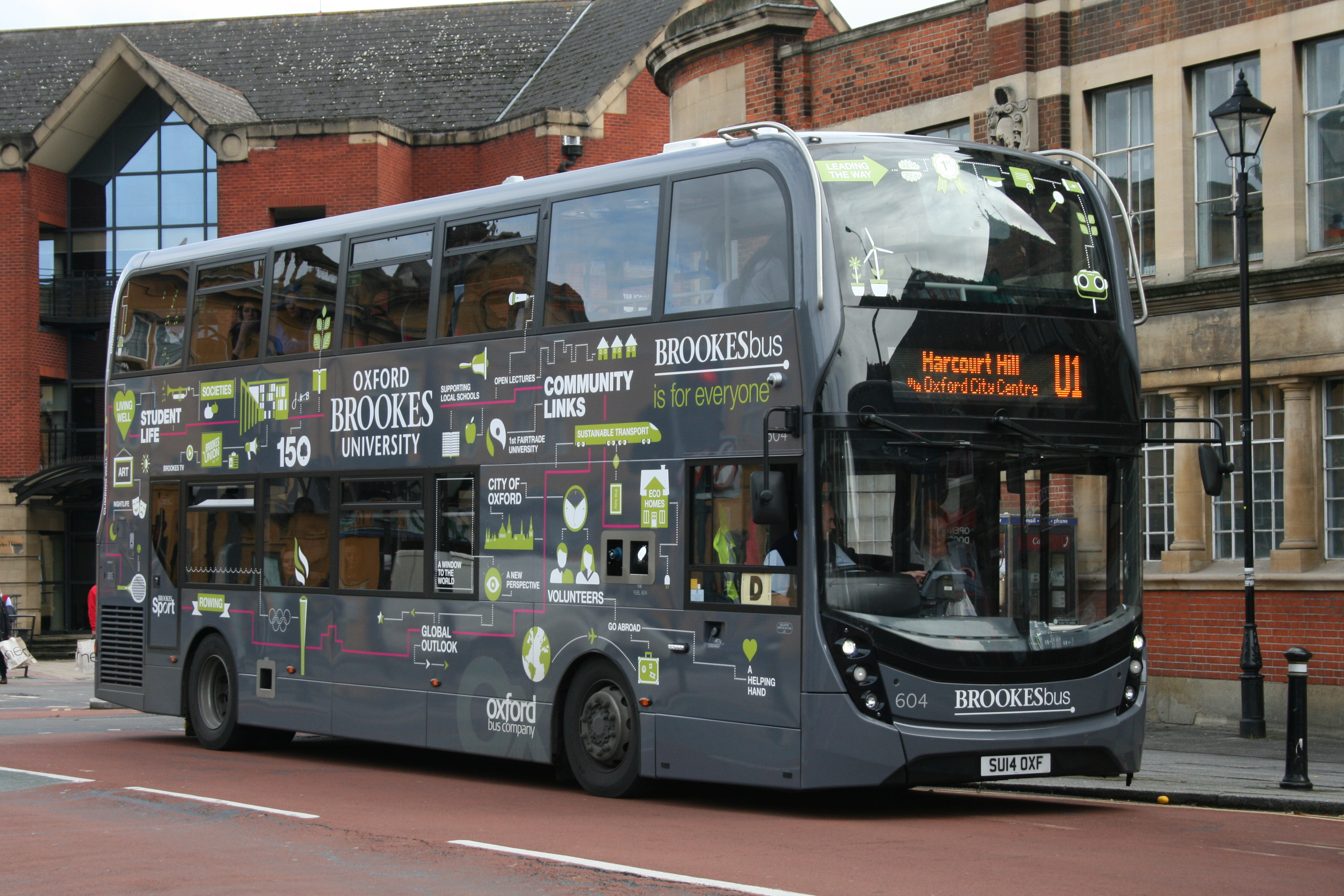 Oxford Bus Company bus in BrookesBus livery on route U1 in Frideswide Square, Oxford. It is an Alexander Dennis Enviro400 MMC, registration mark SU14 OXF, Oxford Bus Co fleet number 604.